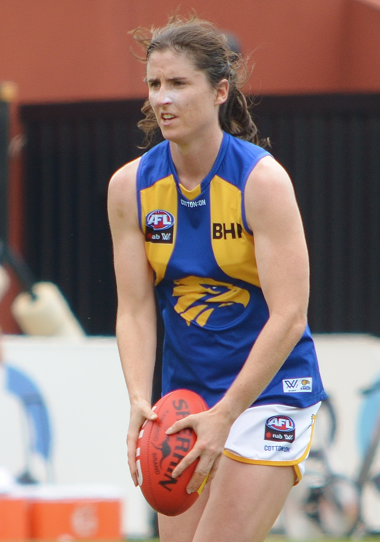 Beatrice Devlyn with West Coast during a pre-season AFL Women's match against Richmond at Punt Road Oval in January 2020.